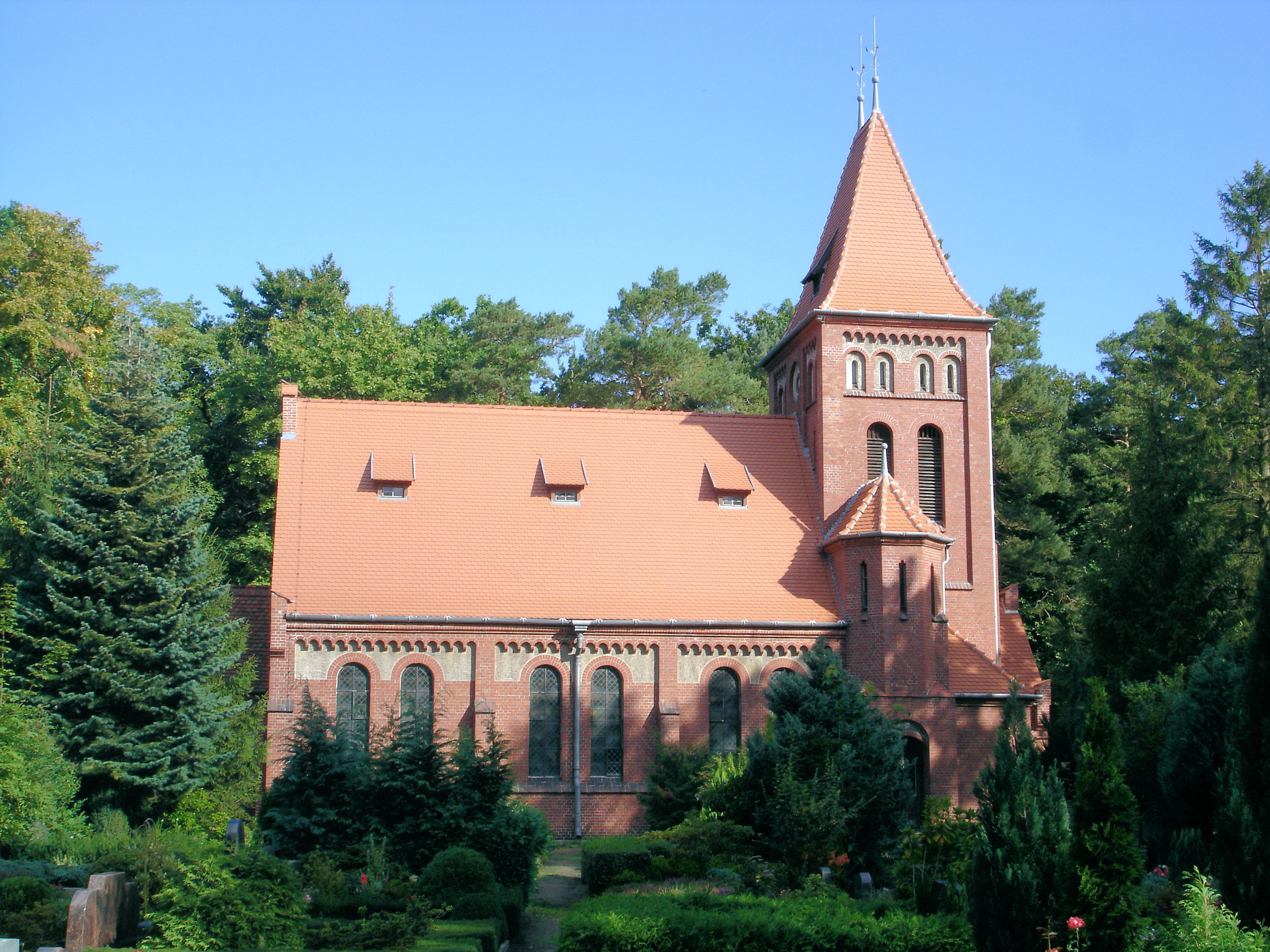 Church in Graal-Müritz, Mecklenburg, Germany